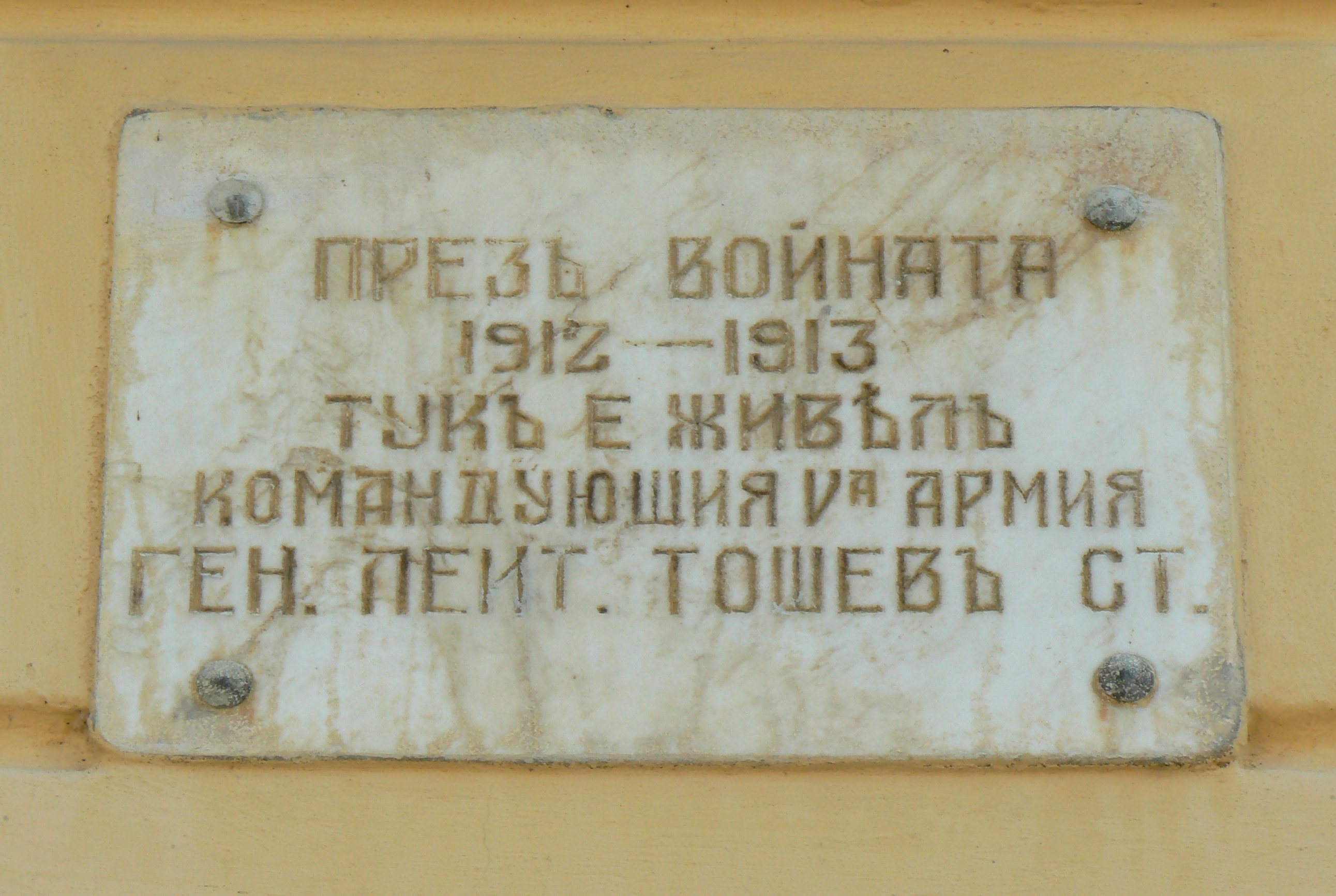 A memorial plaque on the railway station in village Gyueshevo, Bulgaria